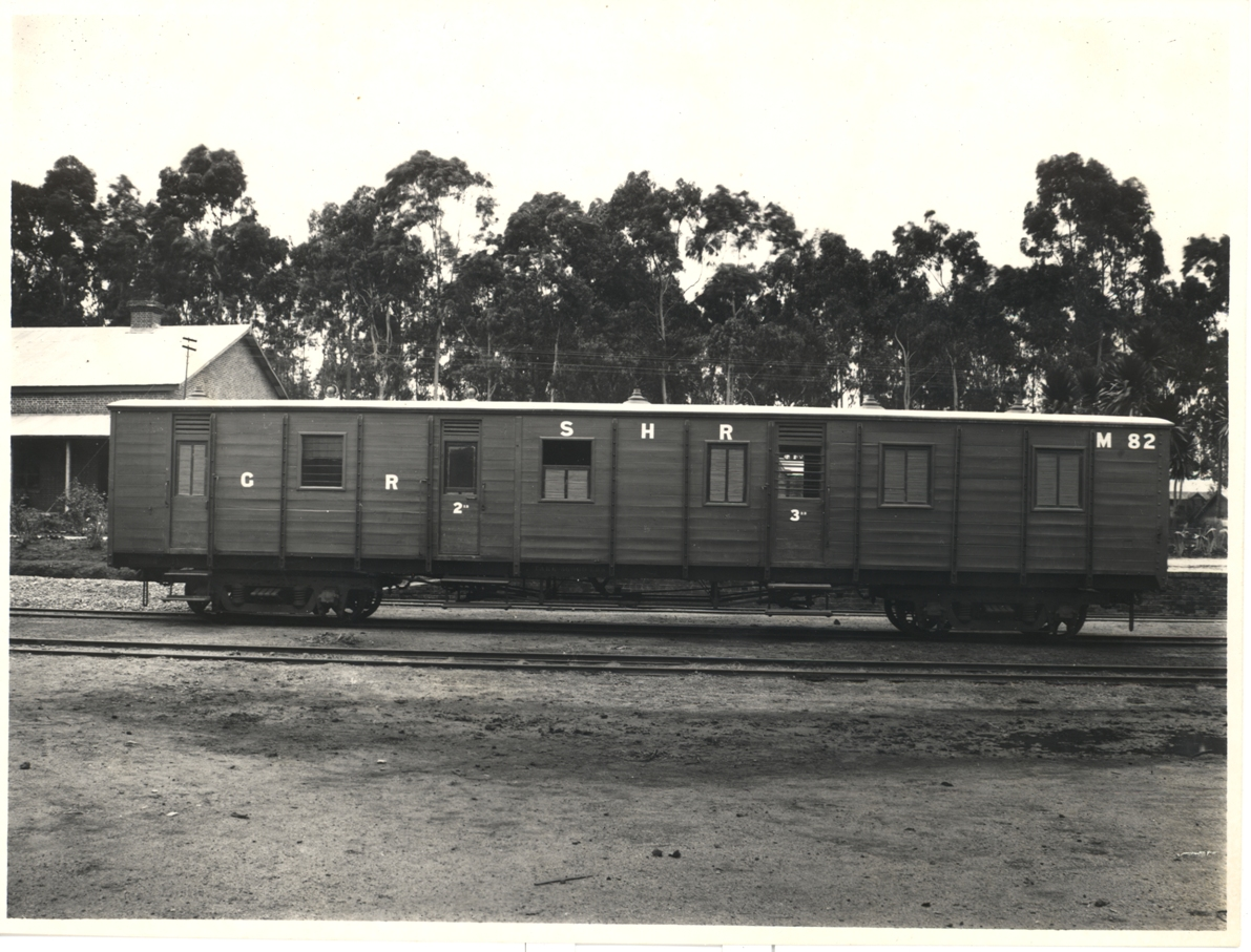 Railcar, Shire Highlands Railway. M 82